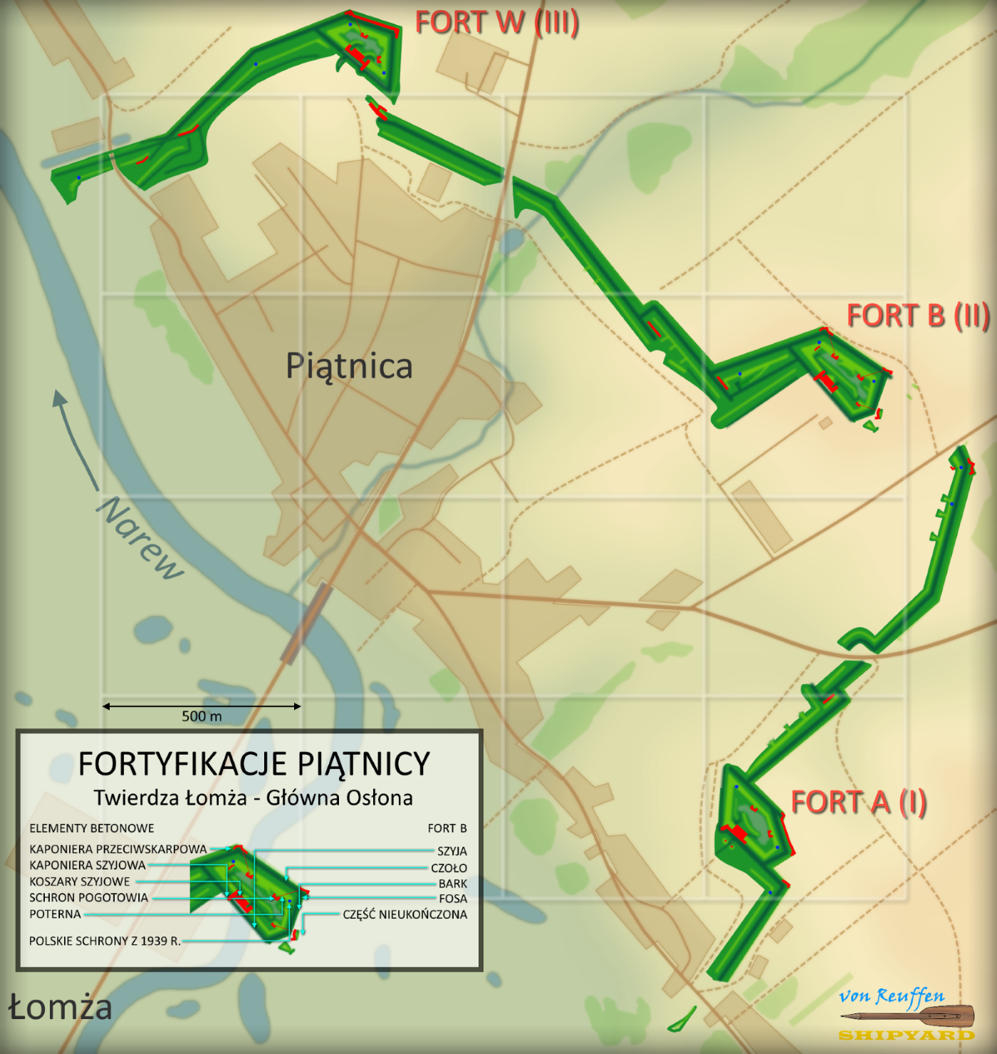 Fortifications in Piatnica, Poland